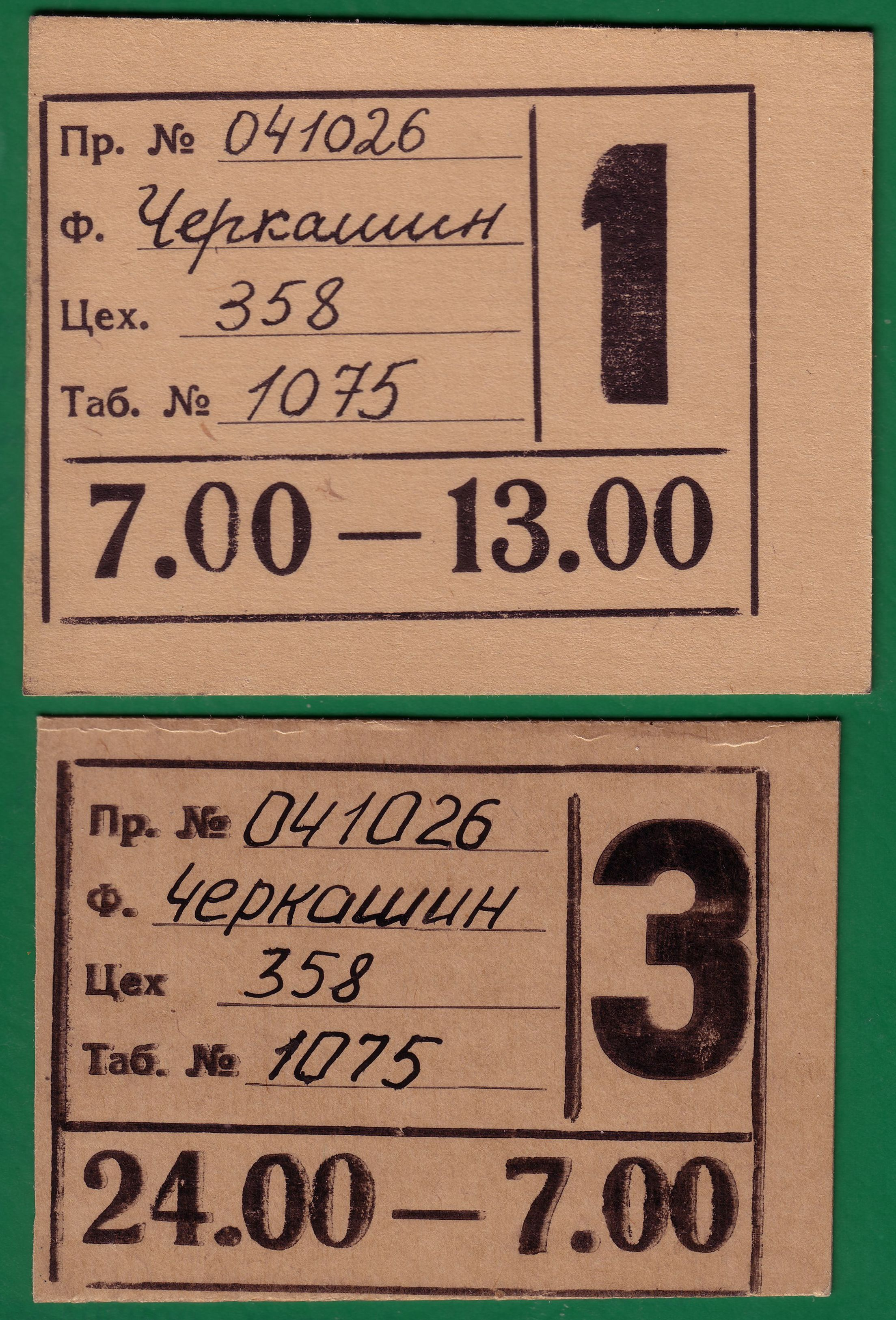 Malyshev Plant propusk.